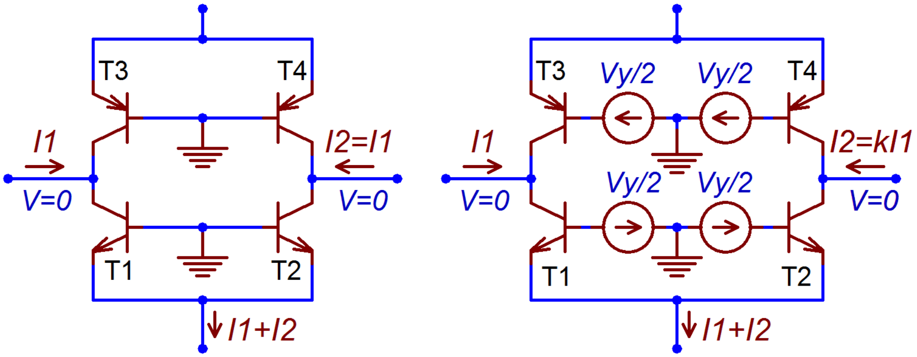 The (very simplified) Blackmer gain cell with grounded (left) and nonzero control voltage. Its current-mirror nature is quite obvious here.